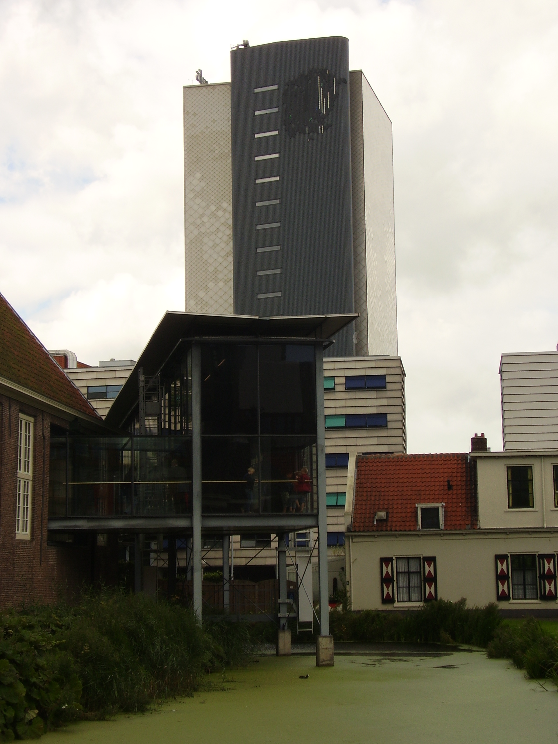 The tower of Naturalis.